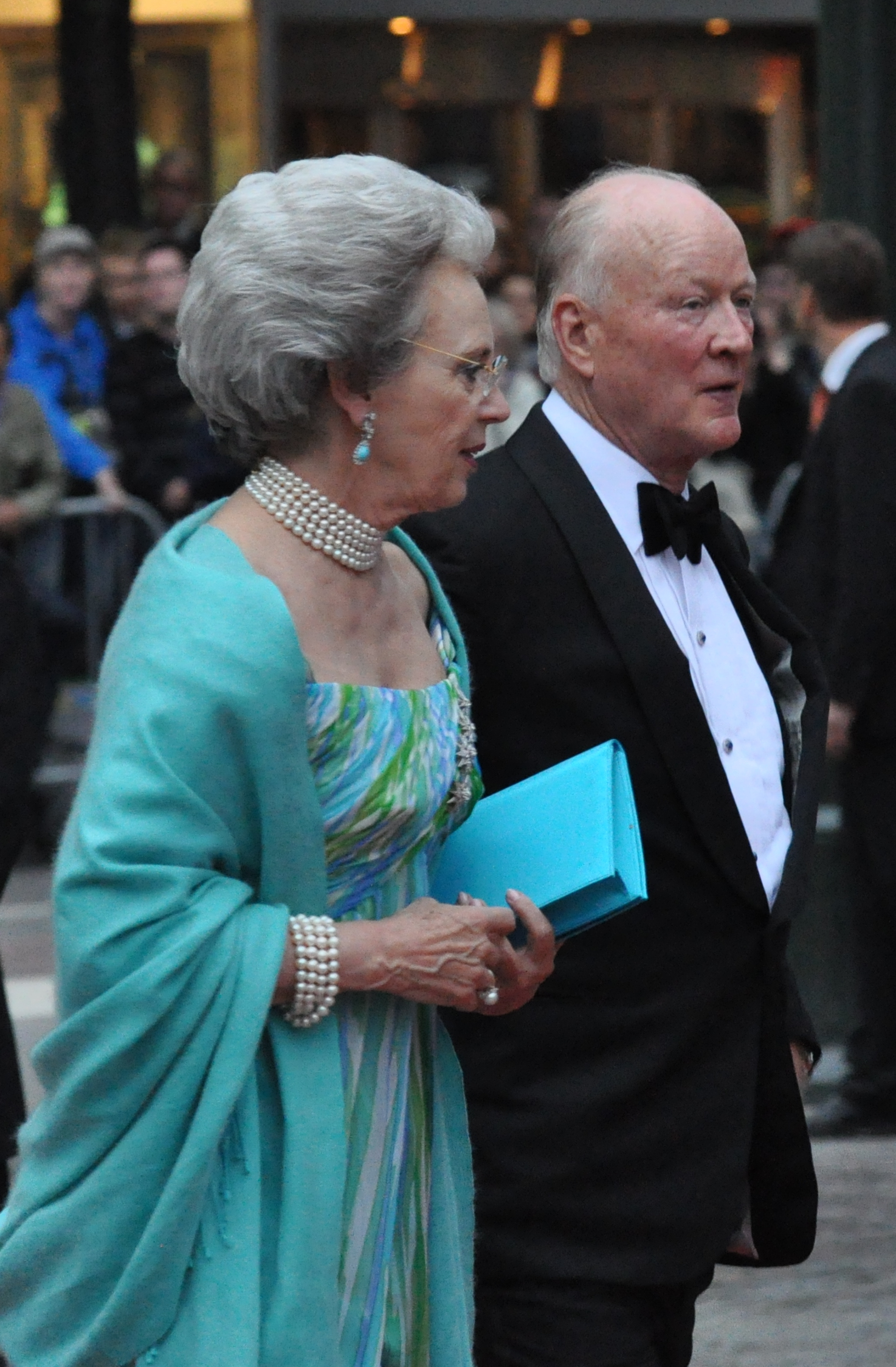 Prince Richard of Sayn-Wittgenstein-Berleburg and his wife, Princess Benedikte of Denmark. Wedding of Victoria, Crown Princess of Sweden, and Daniel Westling; Arrival of members for the Gouvernment and Swedish and foreign guests of hounour to the Riksdag's Gala Performance at Konserthuset